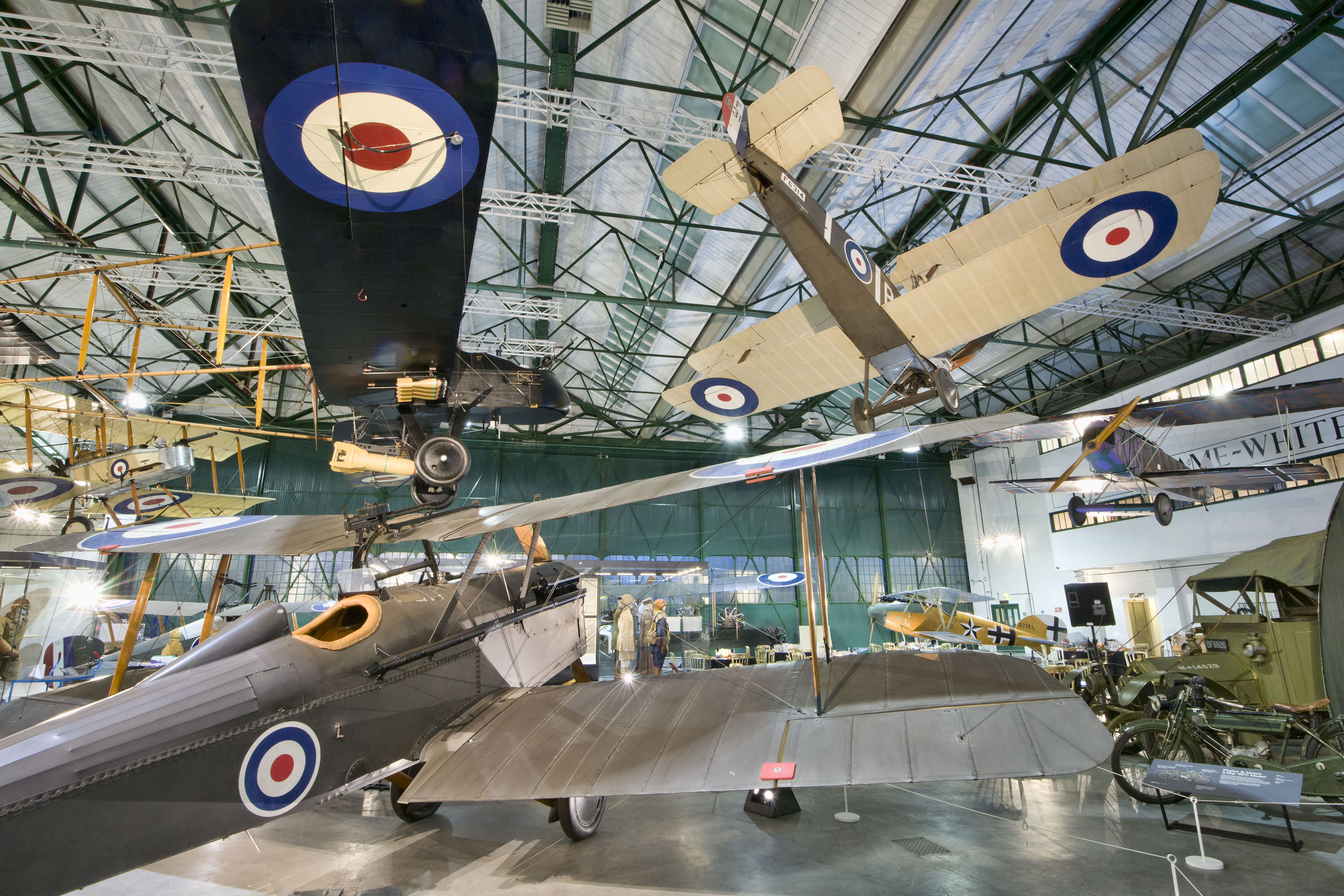 The award winning First World War in the Air exhibition at the RAF Museum London